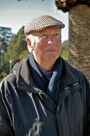 Anthony Bailey at the De Young Museum in San Francisco